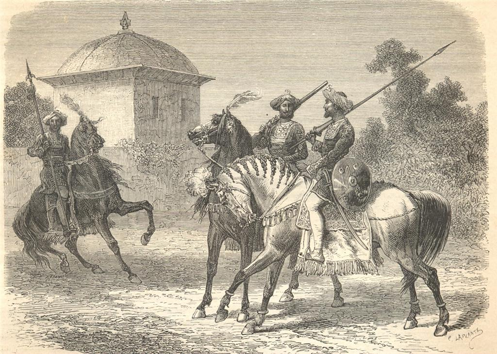 "Royal Guards in Baroda"* by H. Clerget